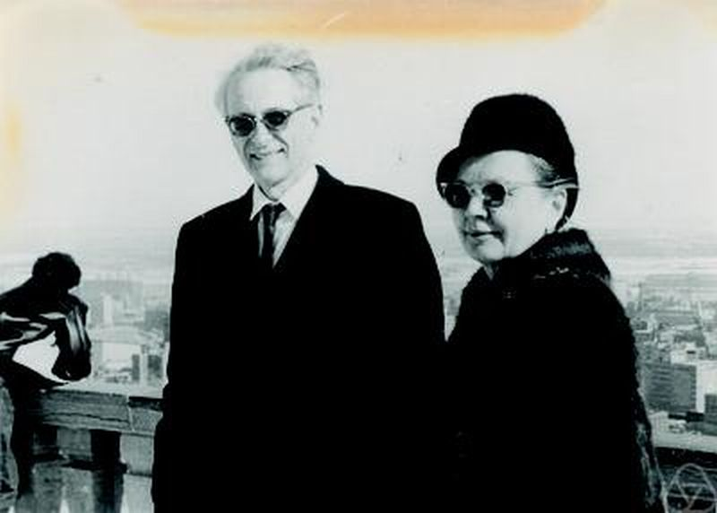 Hans Schwerdtfeger in Montreal 1964